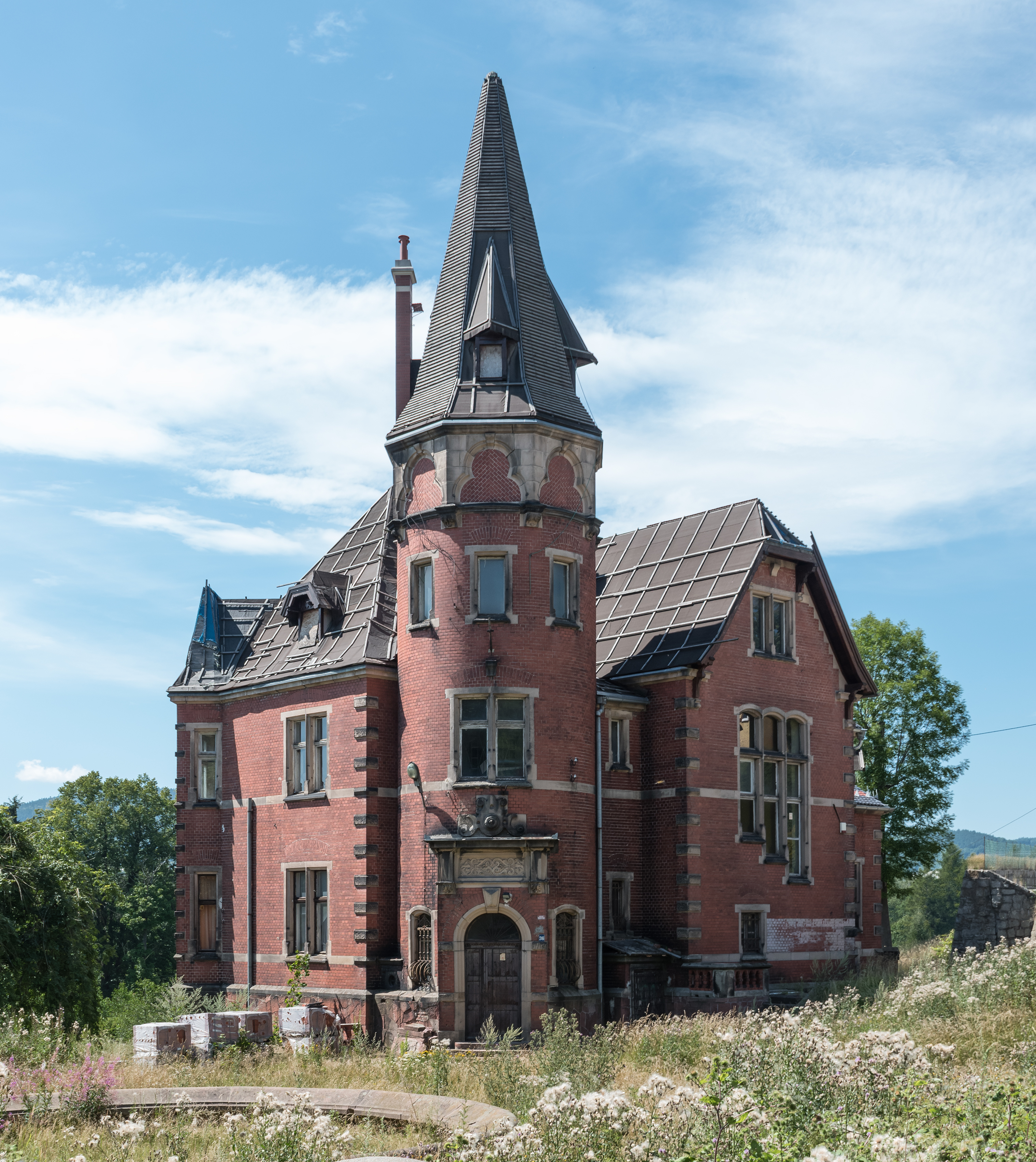 36 Grunwaldzka Street in Głuszyca